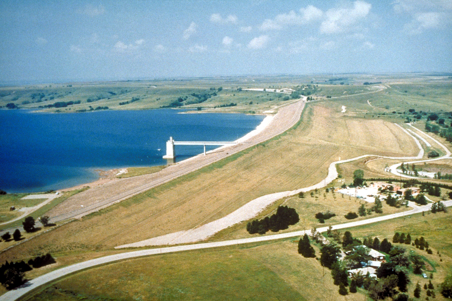 Wilson Dam and Wilson Lake on the Saline River, Russell County, Kansas, USA.